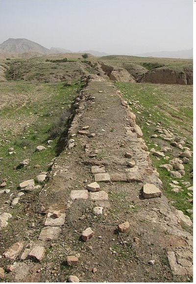 ارجان، بهبهان